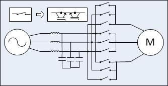 Direct matrix converter topology. Adapted from Direct matrix converter.jpg image in this Wikimedia Commons repository and from various articles by Mahesh Swamy and Tsuneo Kume including Fig. 15 of article at